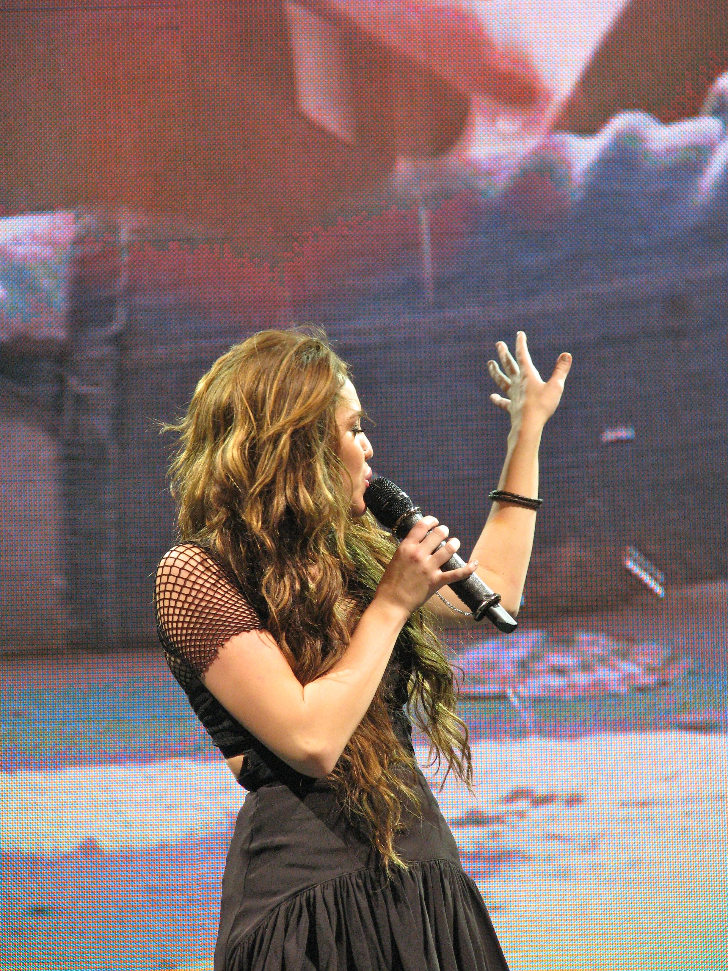 Miley Cyrus performs in the Wonder World Tour, singing When I Look at You.